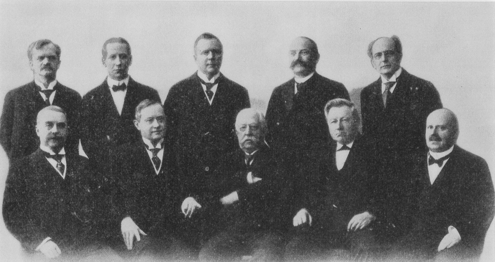 The second cabinet of Otto Albert Blehr (1921–1923).